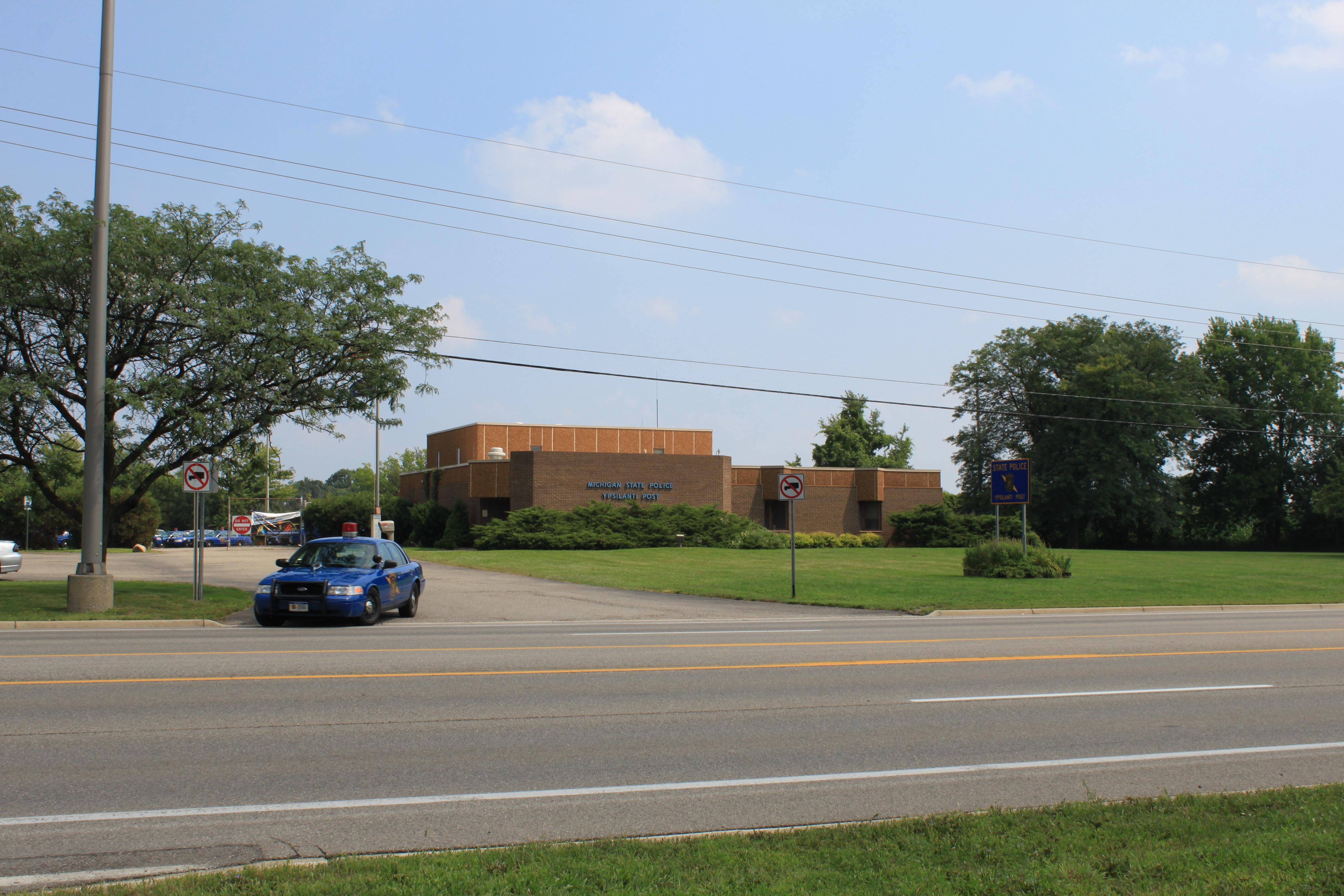 Michigan State Police Ypsilanti Detachment, 1501 South Huron, Ypsilanti Township